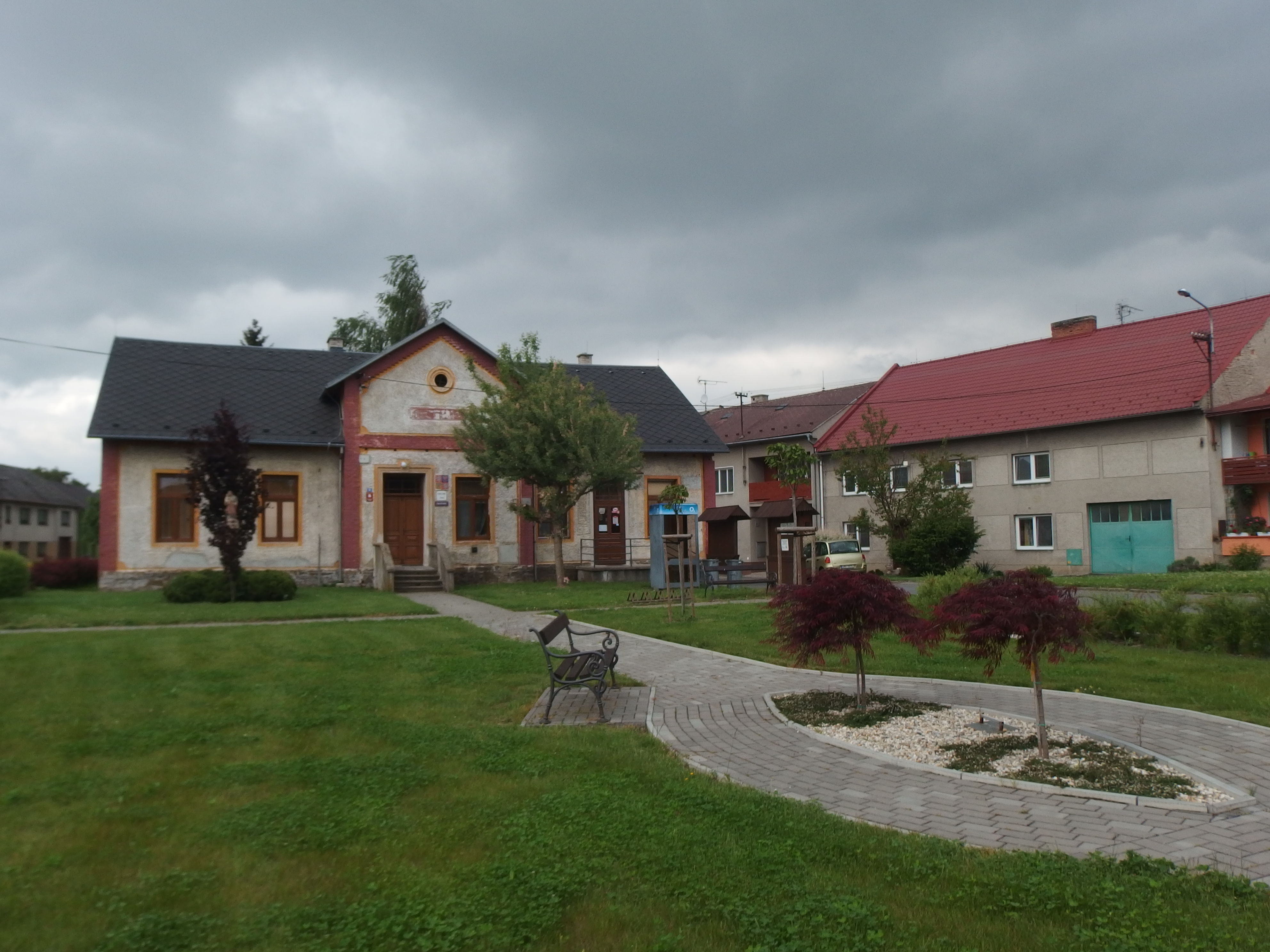 Radkovy, Přerov District, Czech Republic.